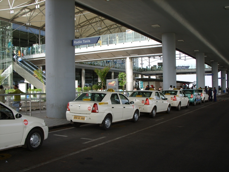 Radio taxi line at Rajiv Gandhi International Airport (HYD) in Hyderabad, AP, India